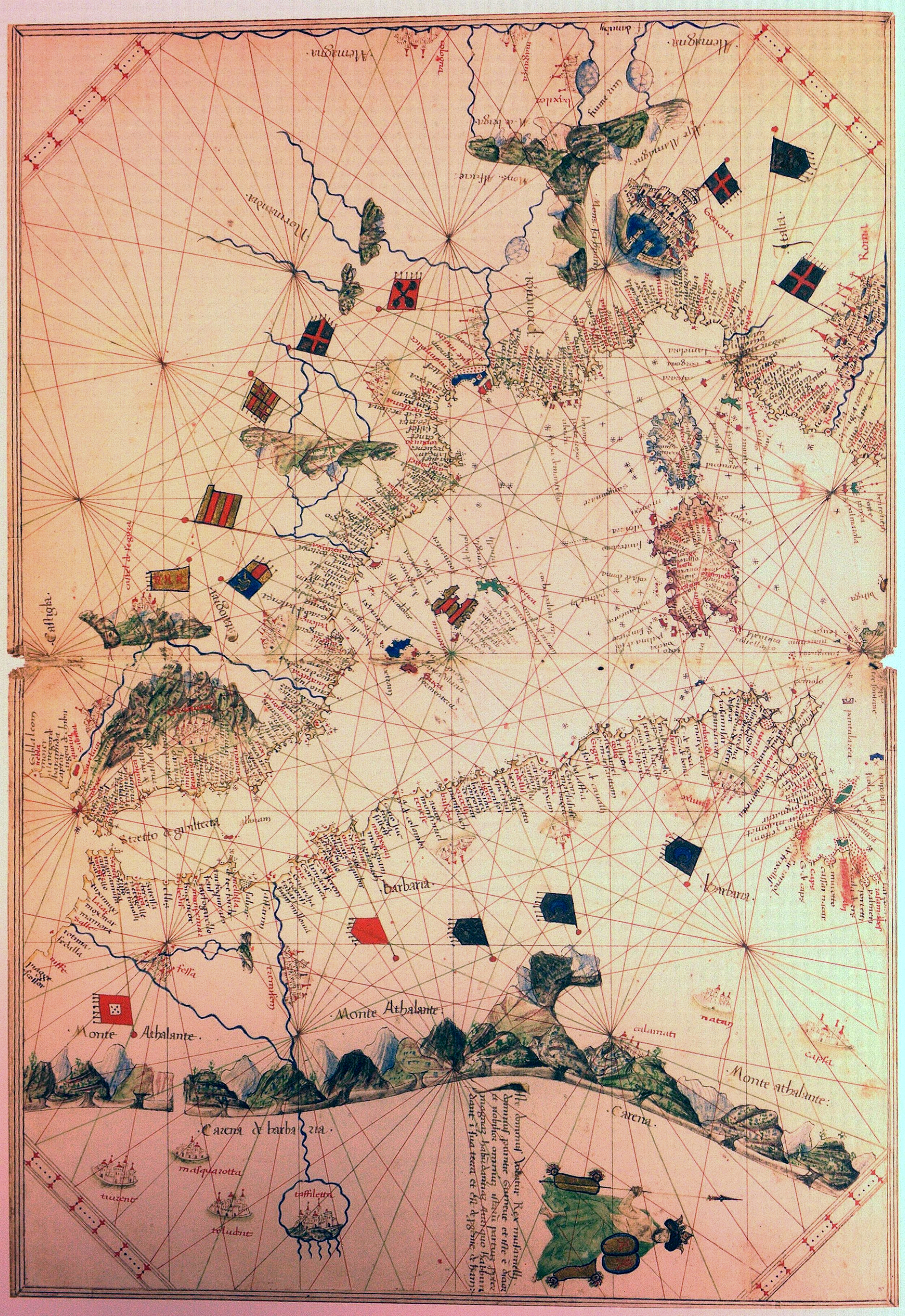 The sphere of influence of the Kingdom of Aragon in the late Middle Ages according to Benincasa’s portolan chart in the manuscript Geneva, Bibliothèque de Genève, Ms. lat. 81.